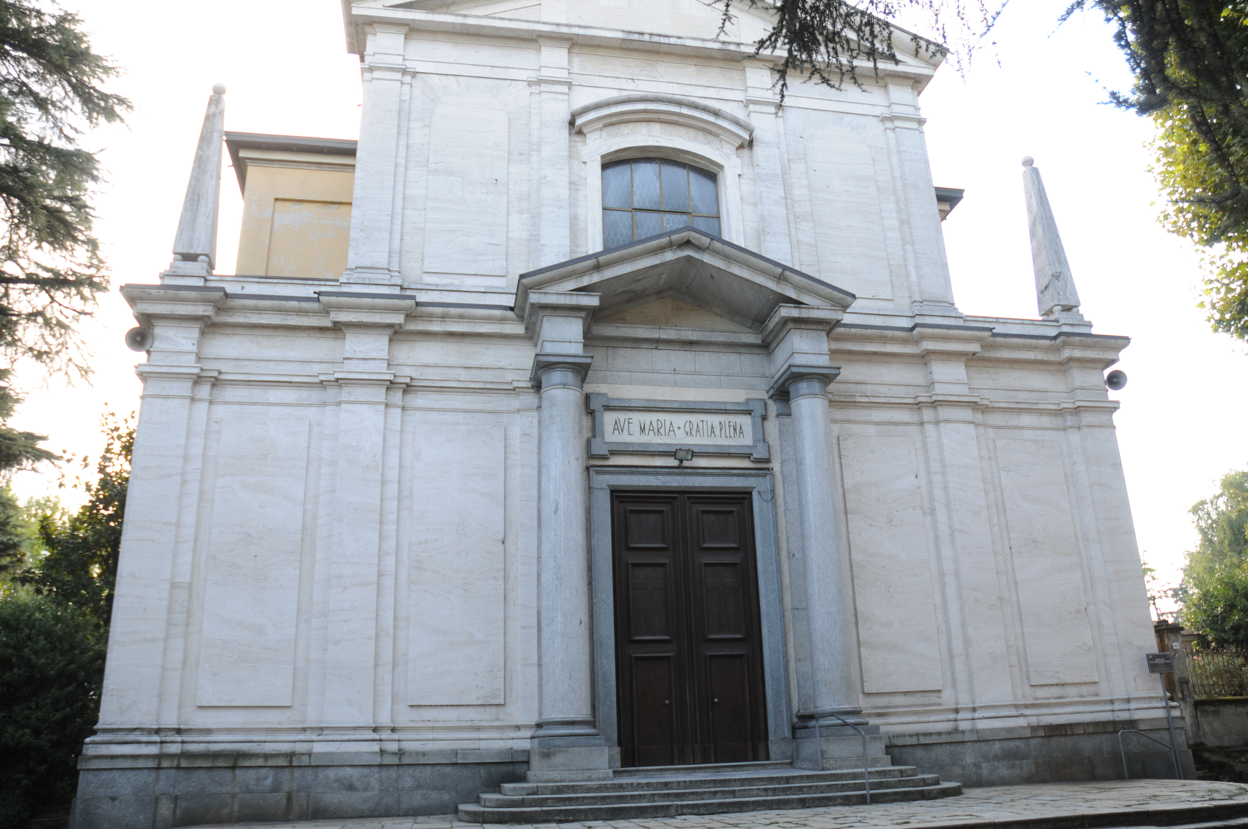 Madonna delle Grazie Sanctuary in Legnano (Italy)